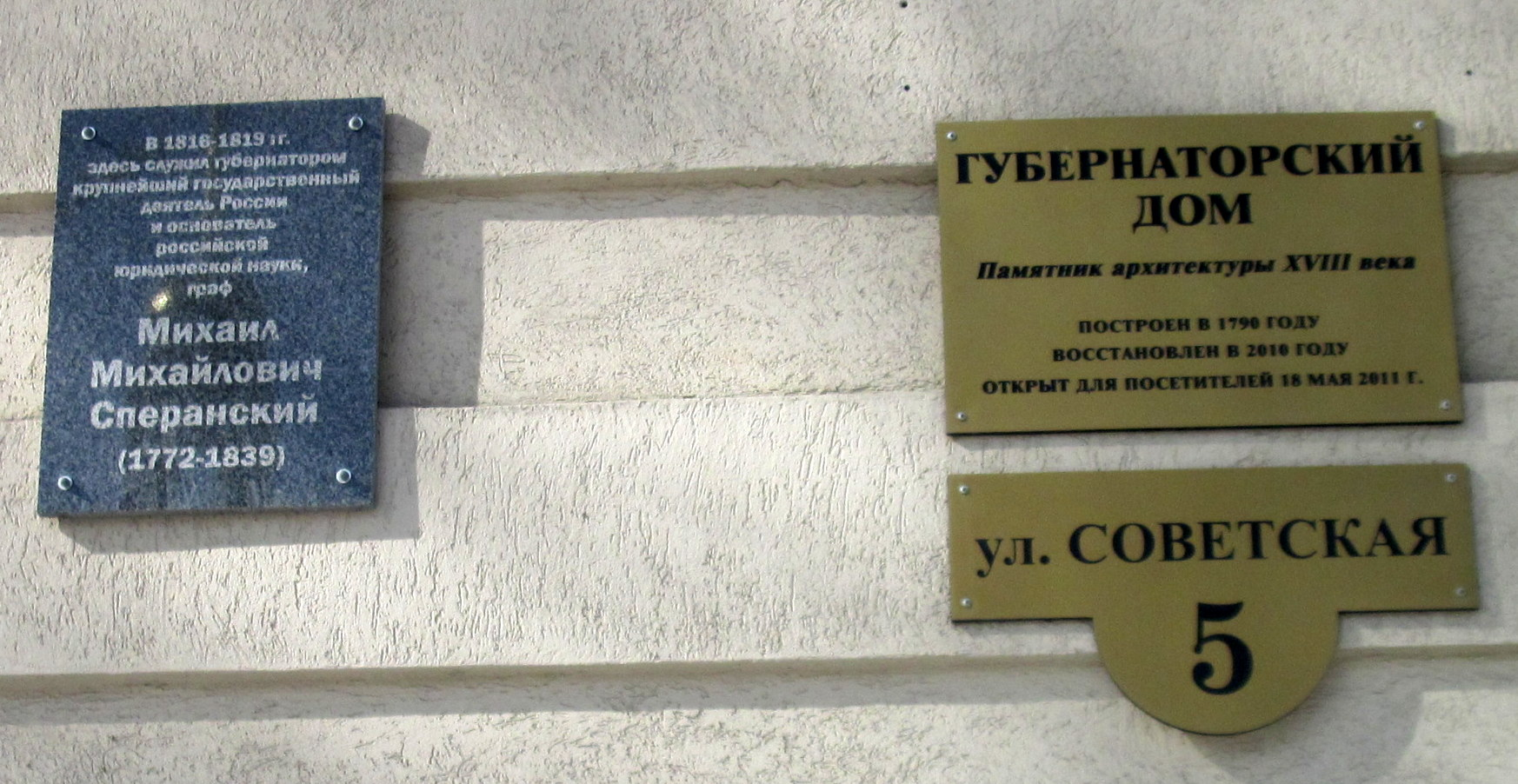 Mikhail Speransky memo